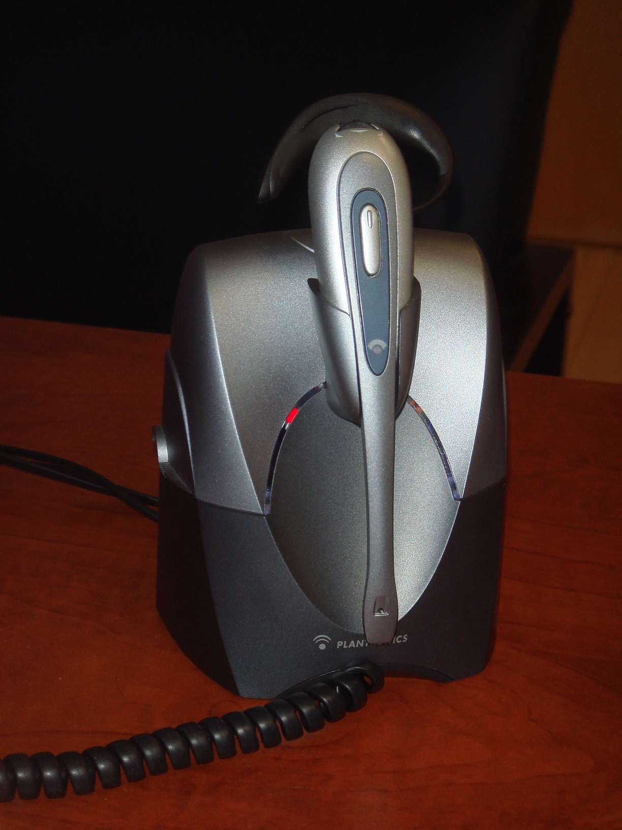 Plantronic office headeset